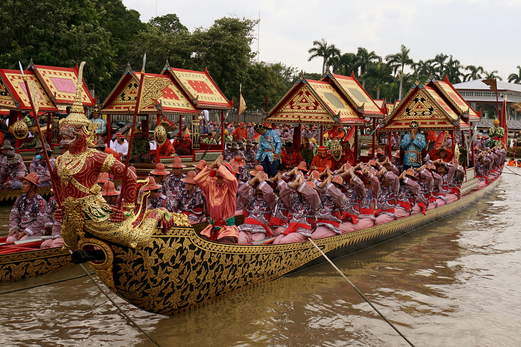 Crew of Sukrip Khrong Mueang performed the ritual wai to the Mae Ya Nang, the female spirit believed to be in every boat. It was performed before the important mission of Royal Barge Procession to bring luck and avoid obstacles. Behind the cannon (not seen in the photo) were food offerred to Mae Ya Nang and incense.